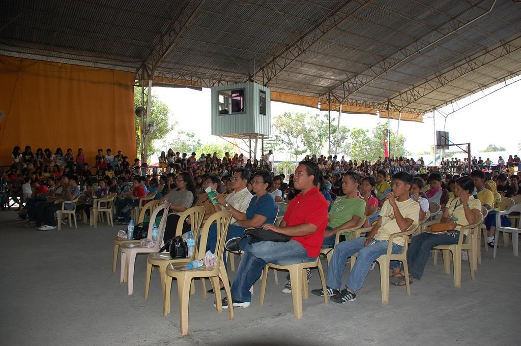 PSYSC campers and officers together with former School Principal III Victoria P. Balquiedra during Tagum City National High School's hosting of the 2008 National PSYSC Summit.